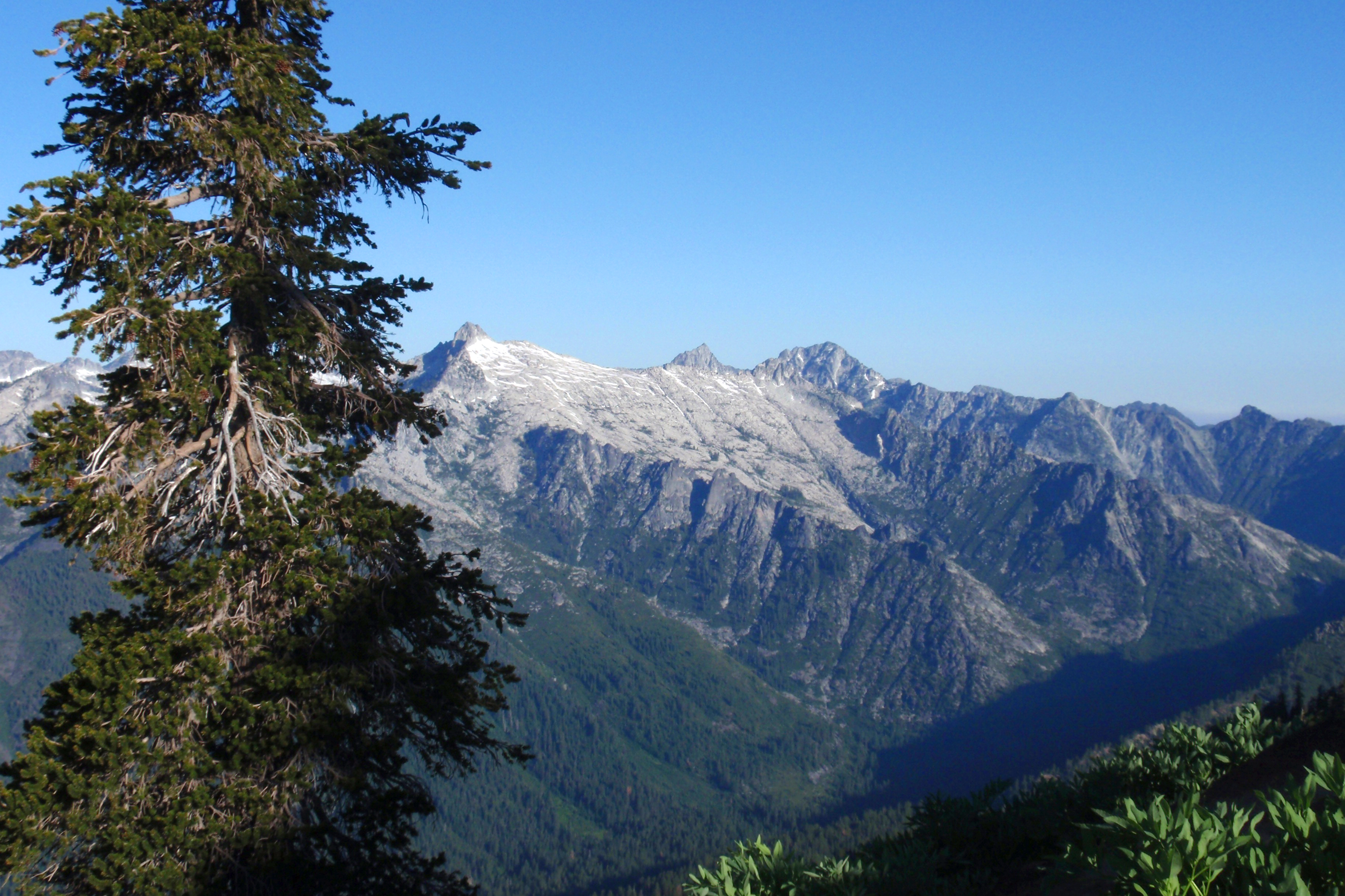 Trinity Alps Wilderness with Pinus balfouriana, Klamath Mountains, California.